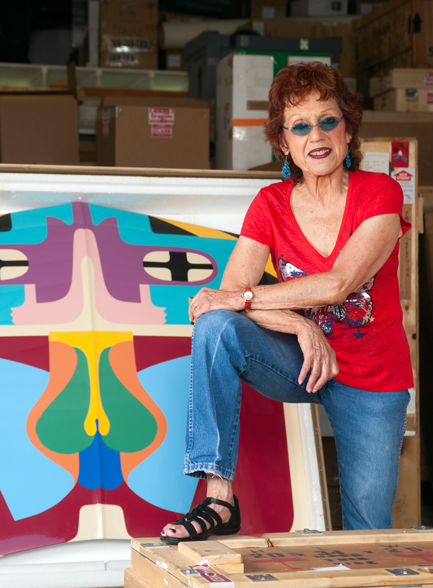 The American artist Judy Chicago with one of her paintings on a car hood.